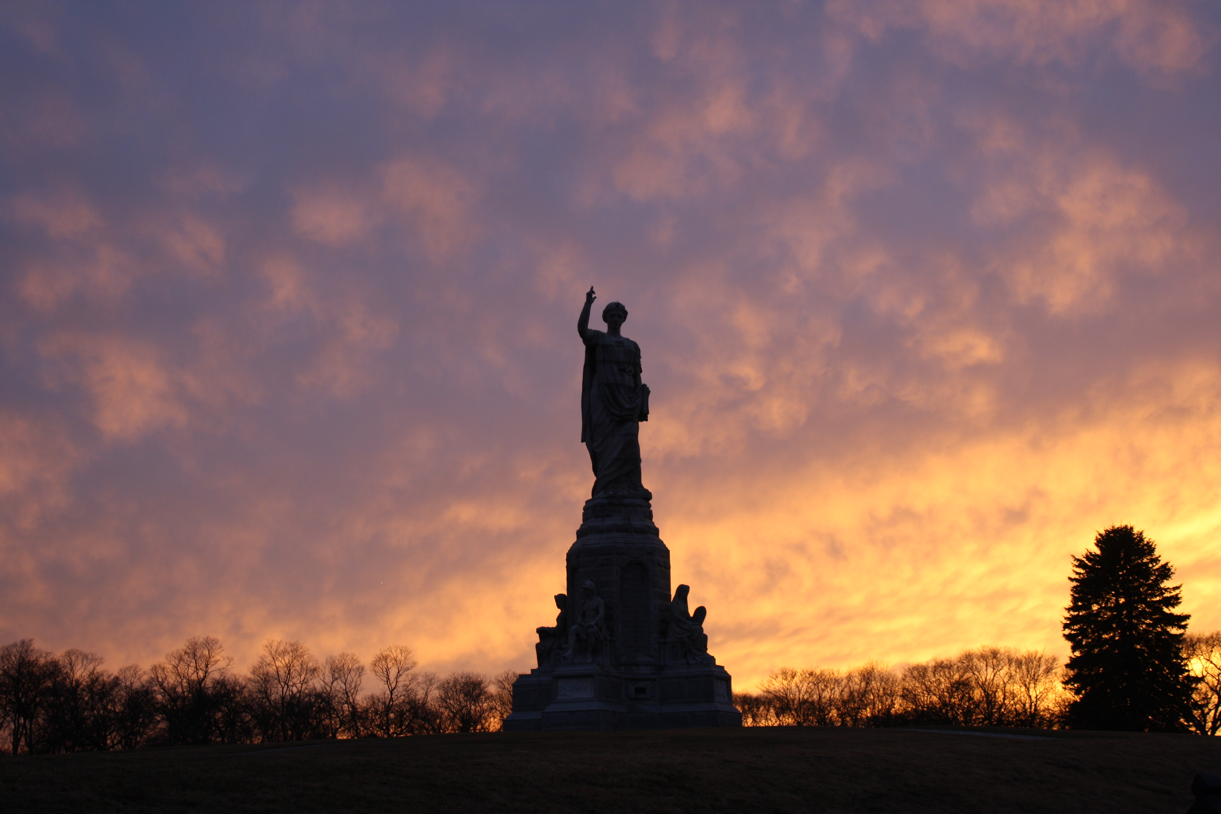 Forefather's Monument in Plymouth, Massachusetts at sunset.